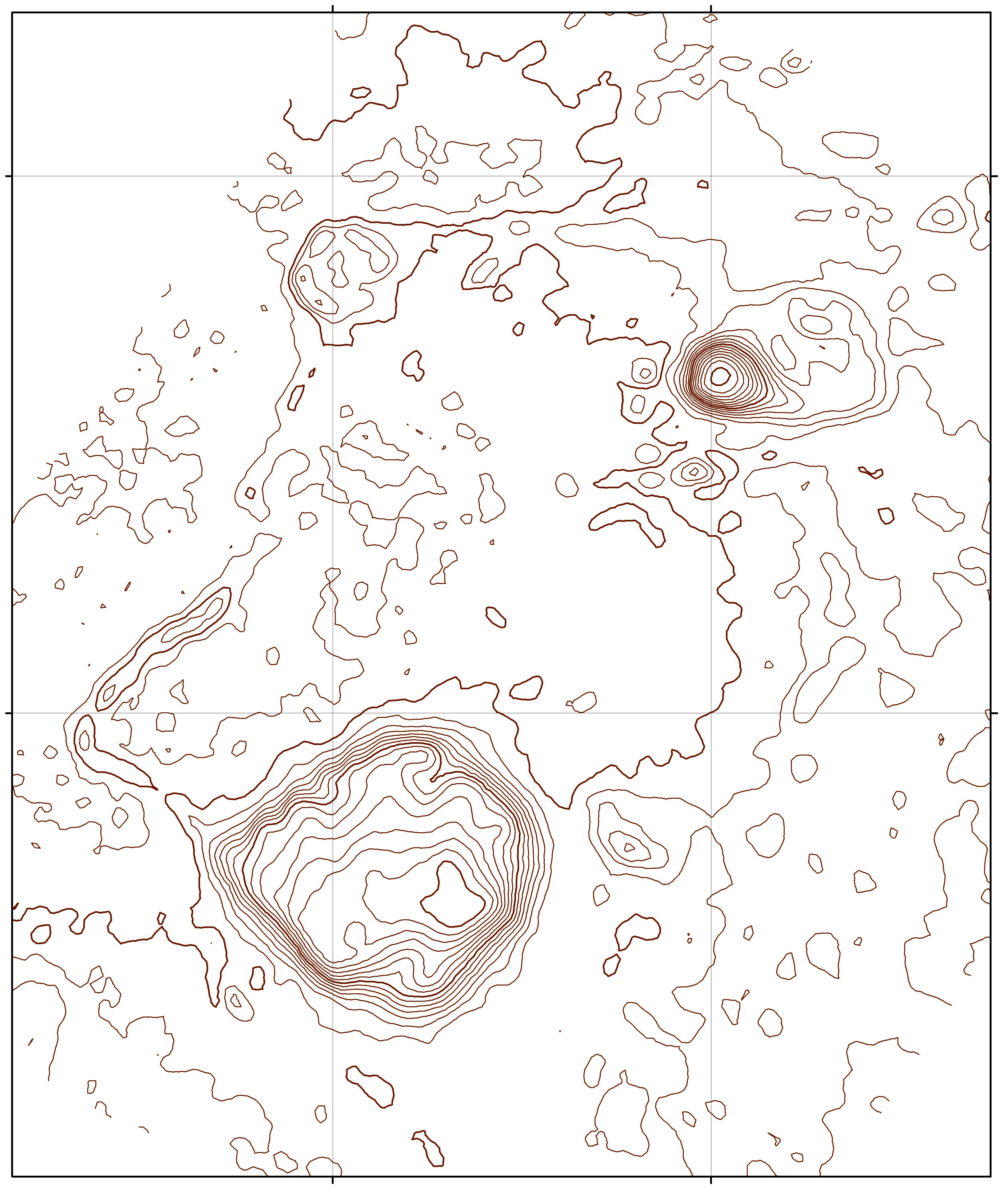 Topography was made photogrammetry